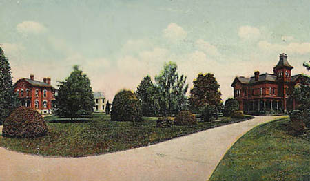 Postcard of Geneva, New York, showing, from right to left, the mansion of William Smith, the Smith Observatory, and the house Smith built for William Robert Brooks.